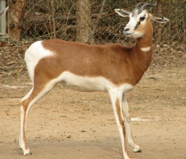 Mhorr Gazelle (Gazella dama mhorr) Author User:Ltshears